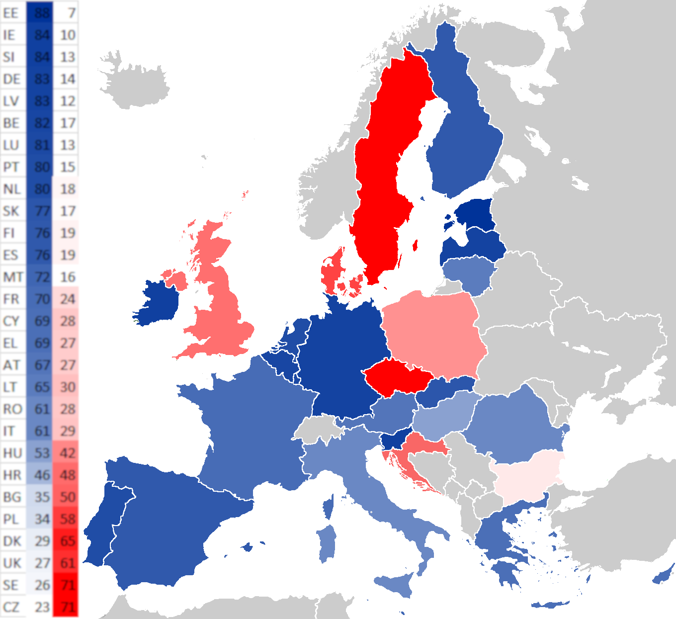 Public Opinion of the Euro in EU countries, measured by the "Eurobarometer" march 2018. Answers in blue: "for", red: "against" Note: Non Euro members are included